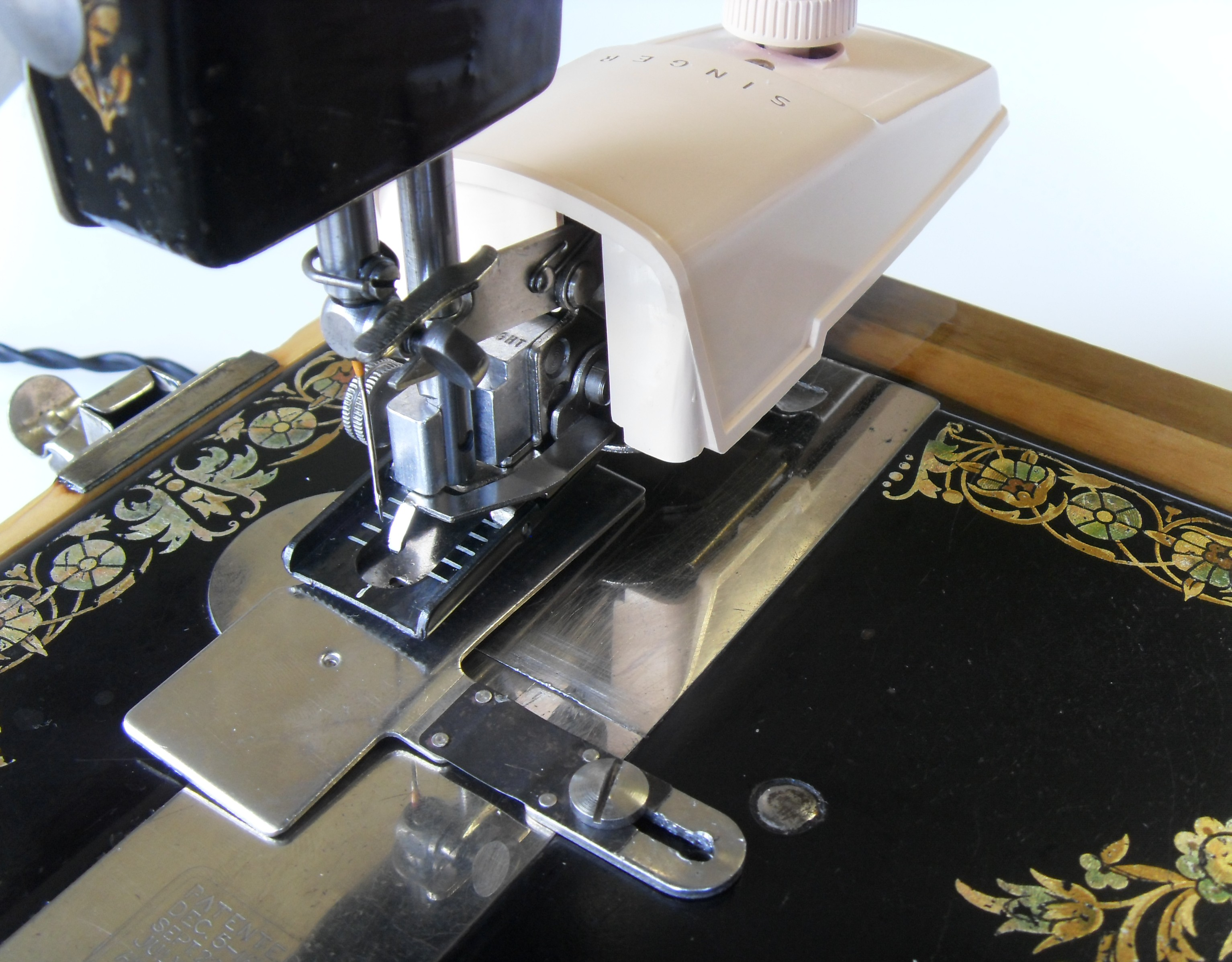 Singer model 489510 buttonholder, mounted on a Singer model 27 sewing machine